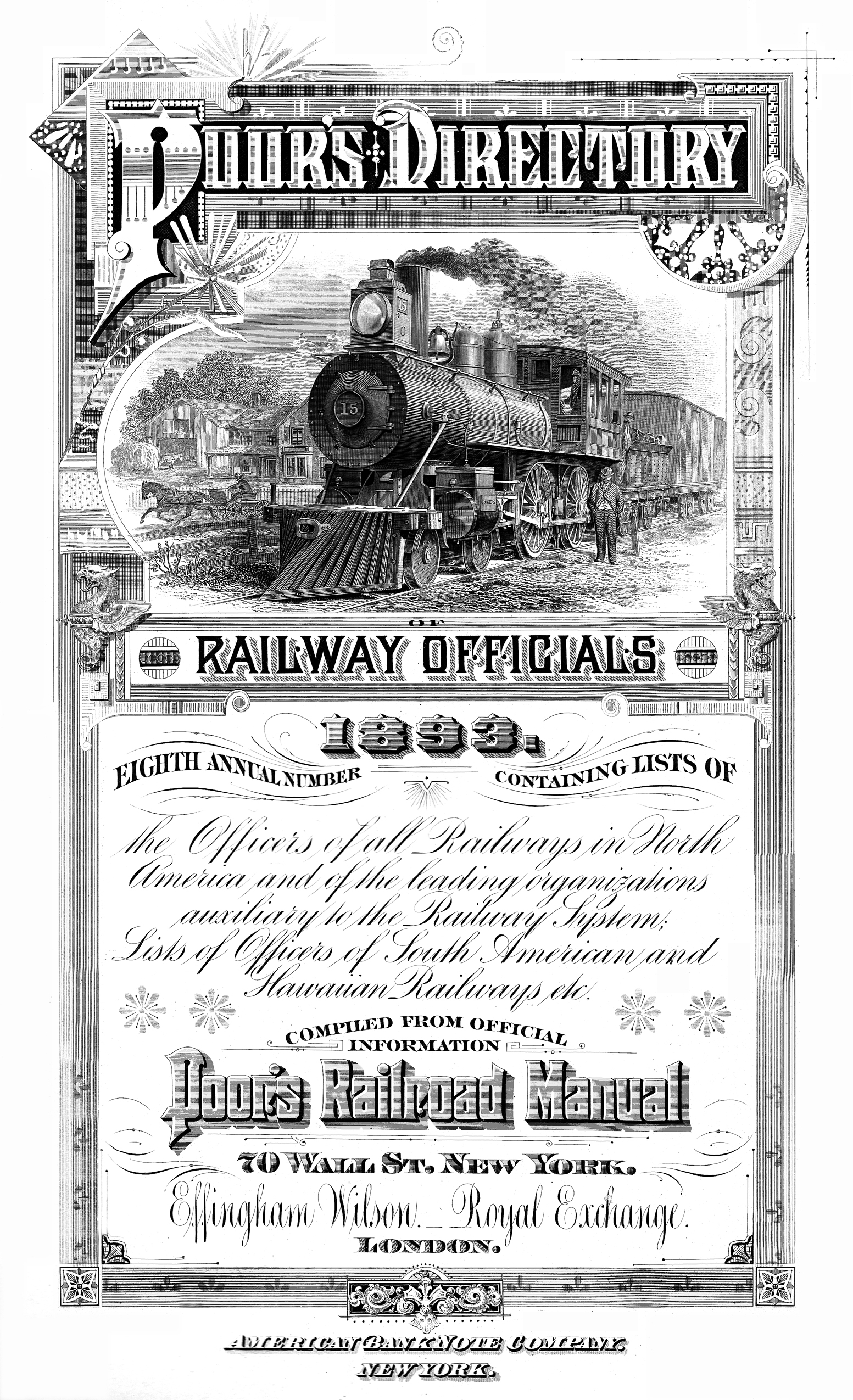 Engraved frontispiece from "Poor's Directory of Railroad Officials and Manual ofAmerican Street Railways 1893"